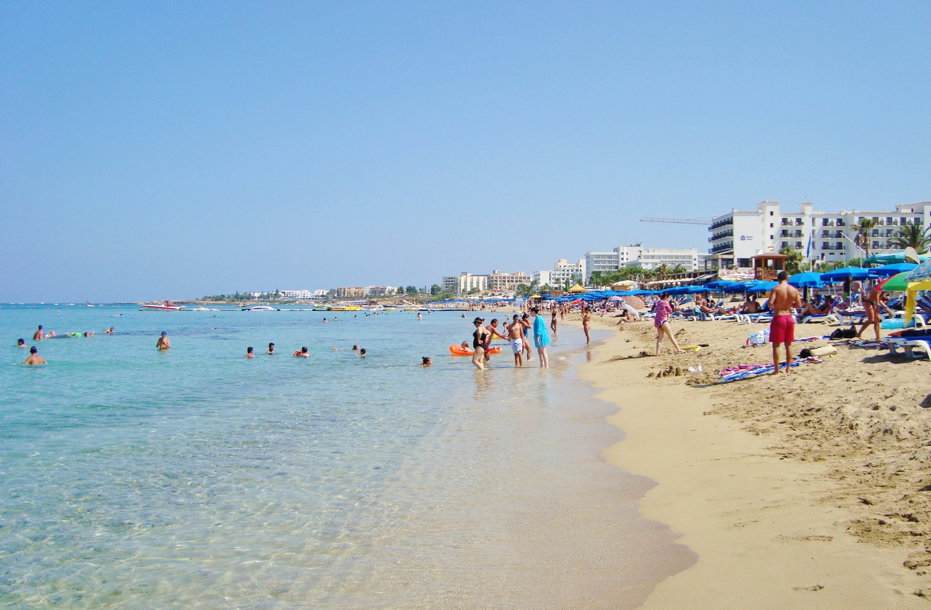 Protaras beach at Paralimni holiday destination in Republic of Cyprus